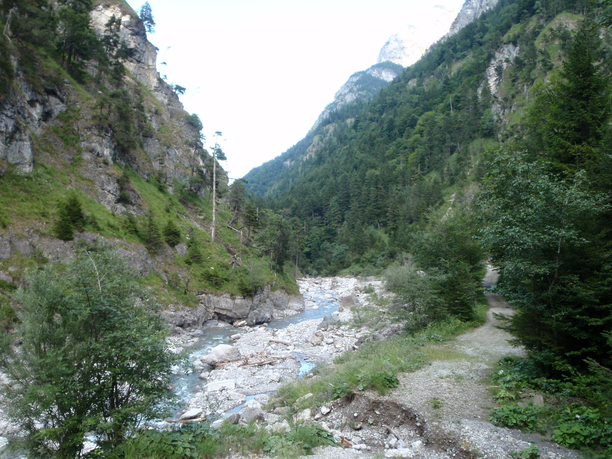 The Samina river, downstream view from the Liechtenstein/Austria border. The river flows into the Ill at Frastanz